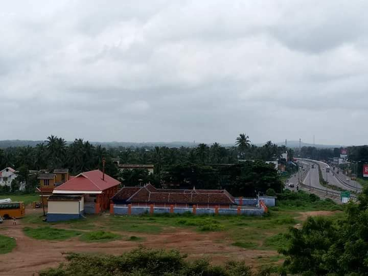 PUTHUKKULANGARA TEMPLE & KAVU MAIDHANAM ALATHUR